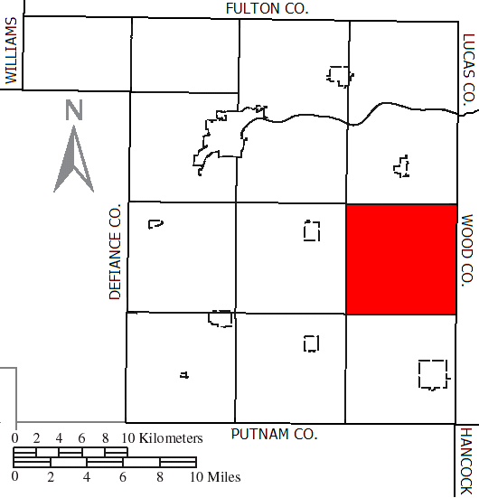 Made by the US Census and modified by myself